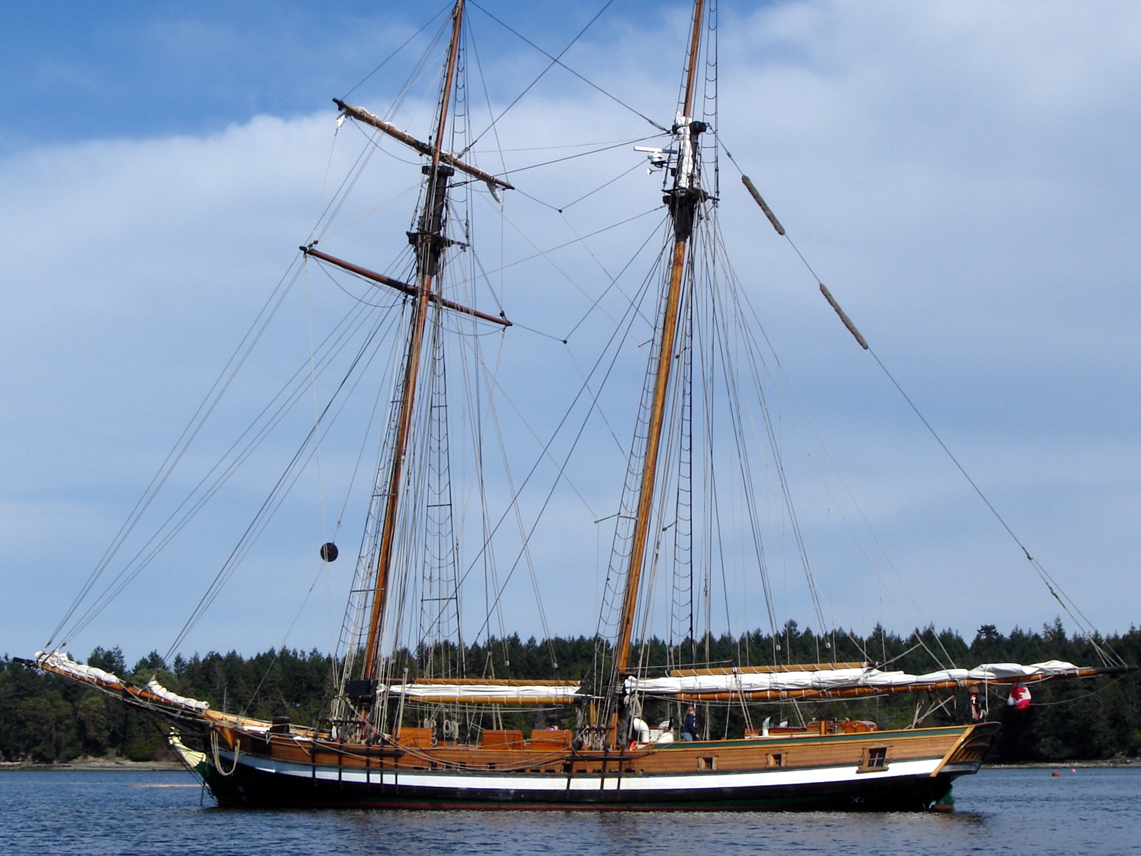 Photo taken by Graham Kingsley Pacific Swift of S.A.L.T.S.